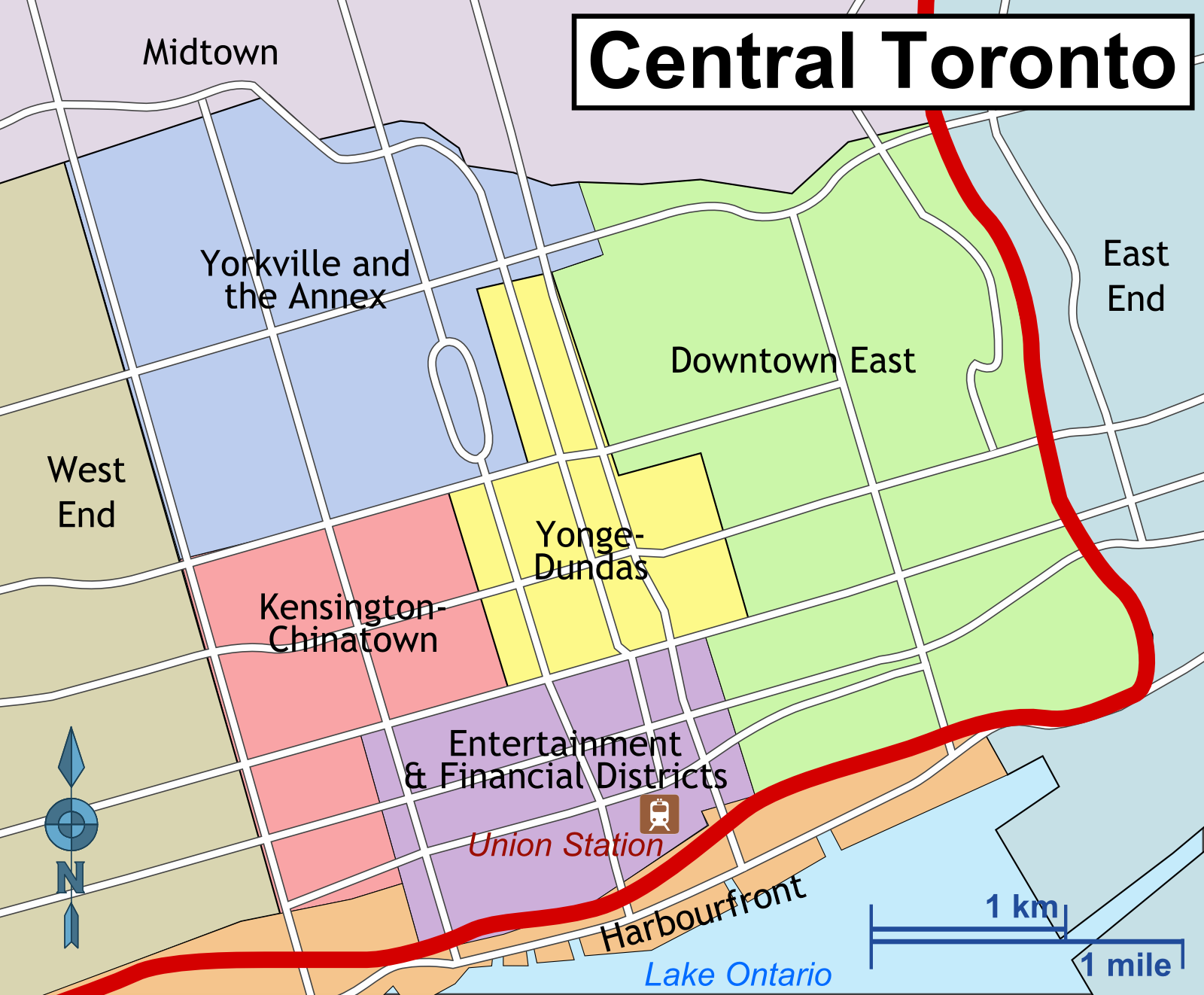 Wikivoyage-style map of downtown Toronto districts for Toronto travel guide.